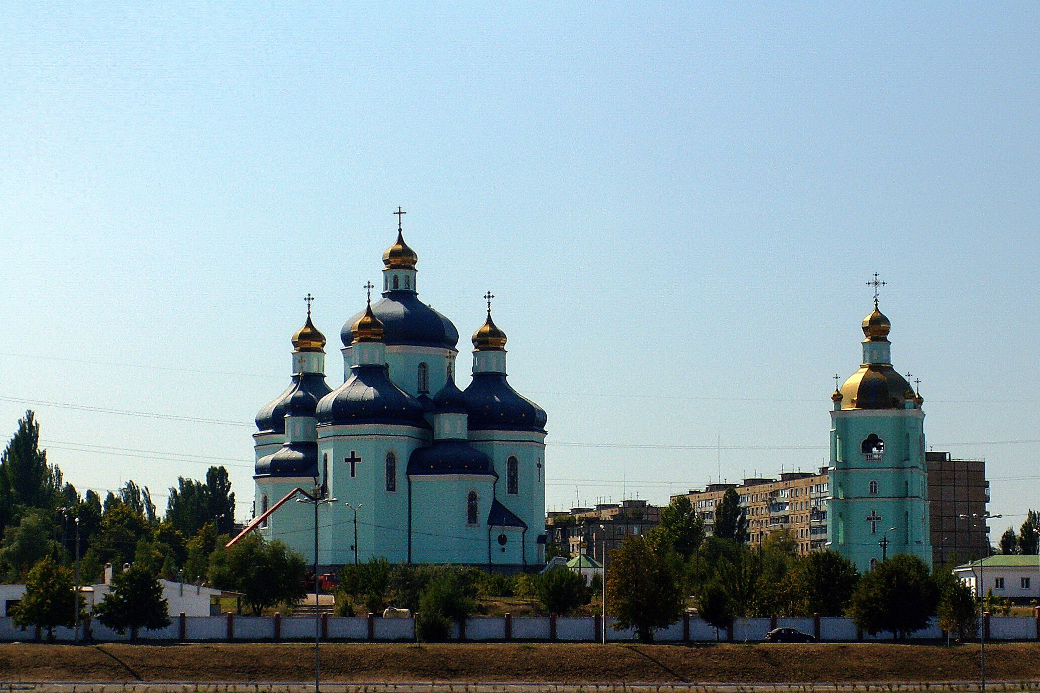 Orthodox church in Krivoi Rog, Ukraine.